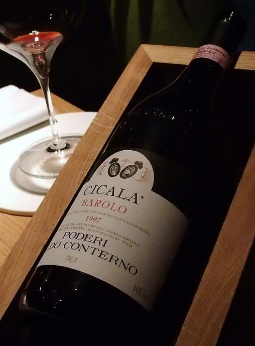 Detail bottle and glass 1997 Poderi Aldo Conterno Barolo Cicala